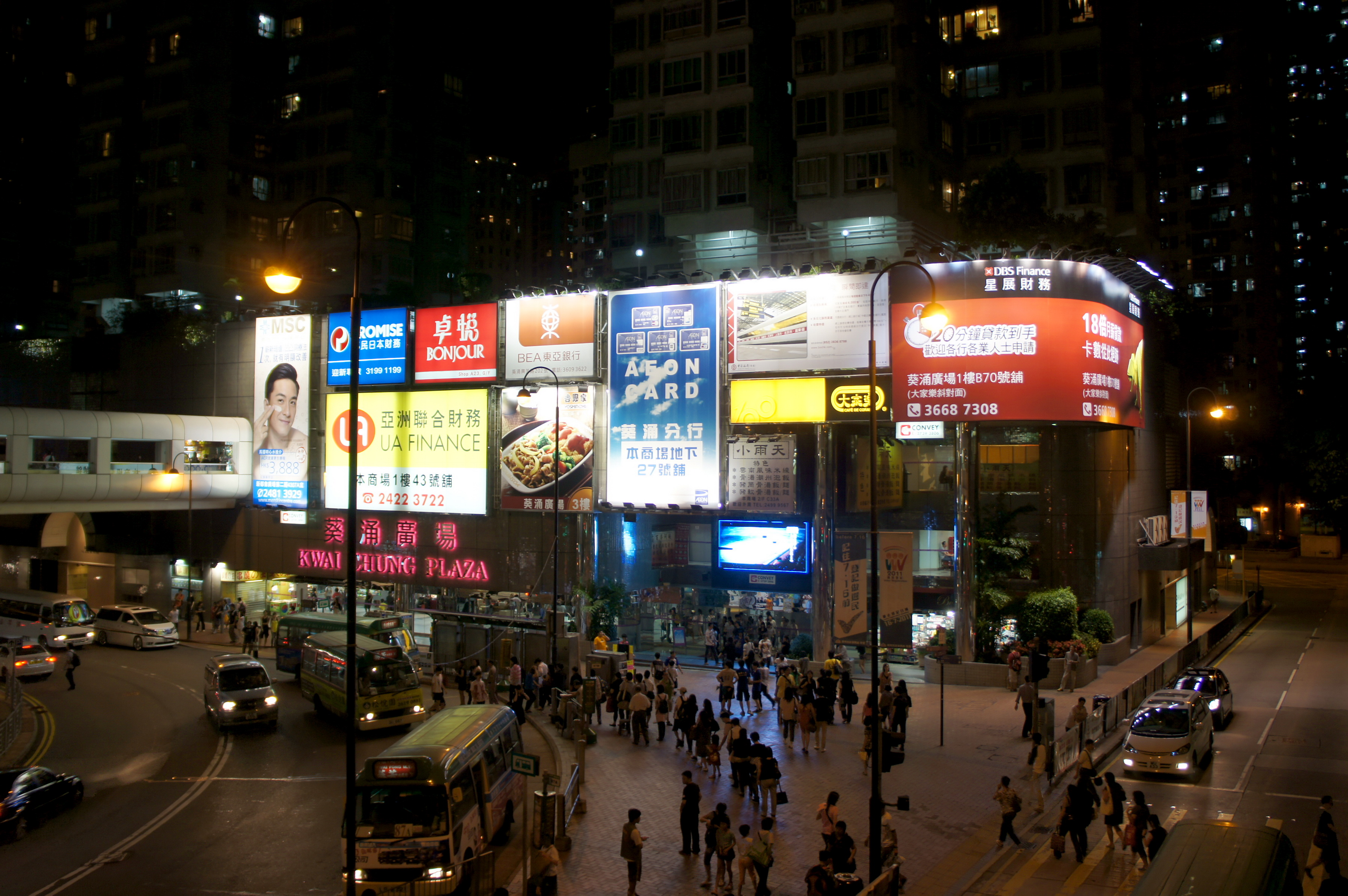 Kwai Chung Plaza located adjacent to Kwai Fong Estate, Metroplaza and Kwai Fong Station in Hong Kong.